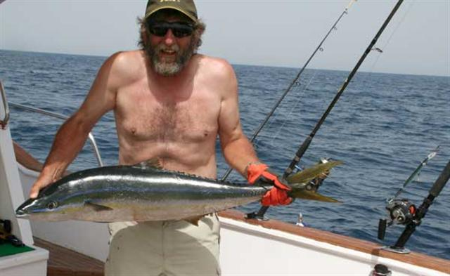 Elagatis bipinnulata caught in Hurghada, Egypt.